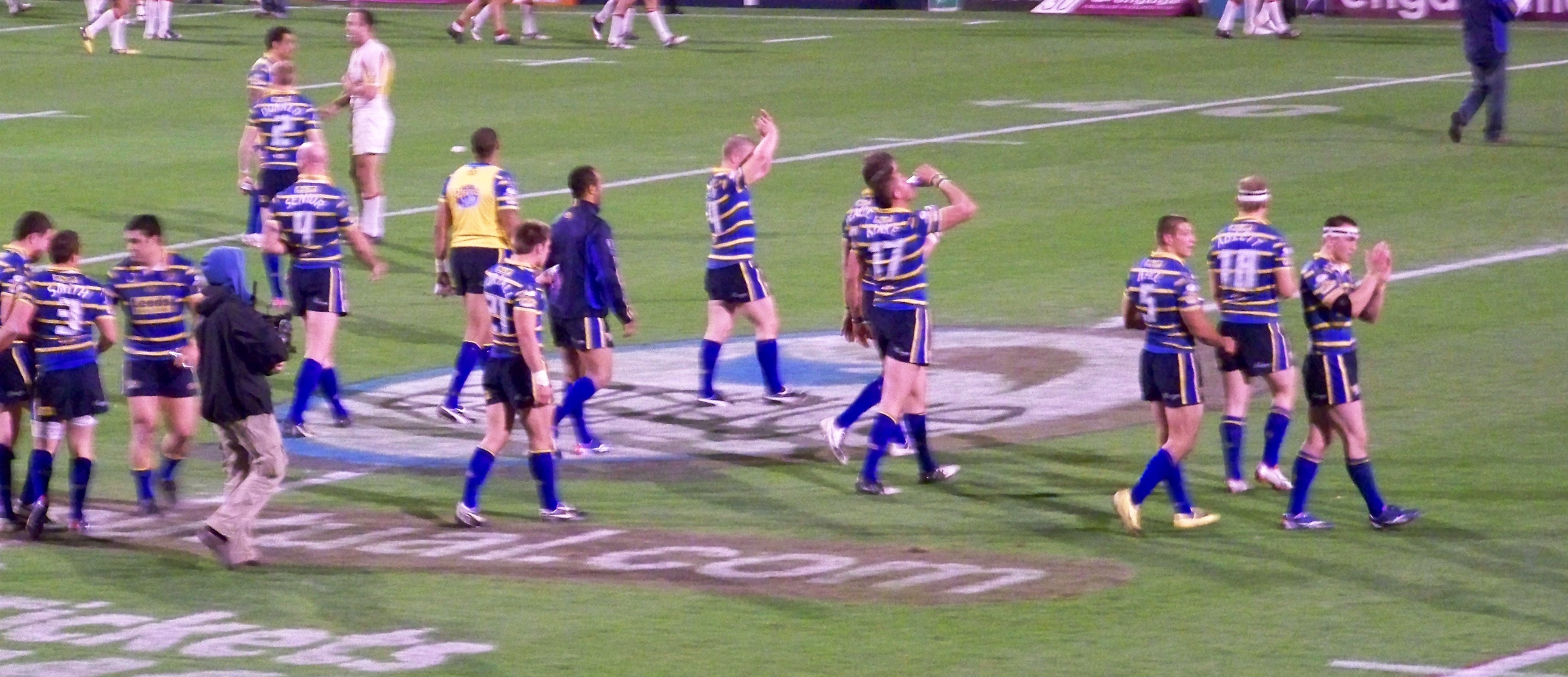 Leeds Rhinos leave the pitch at Headingley after beating Catalan Dragons 27-20 in the 2009 Superleague playoff semi final. Taken on Friday 2nd October 2009.